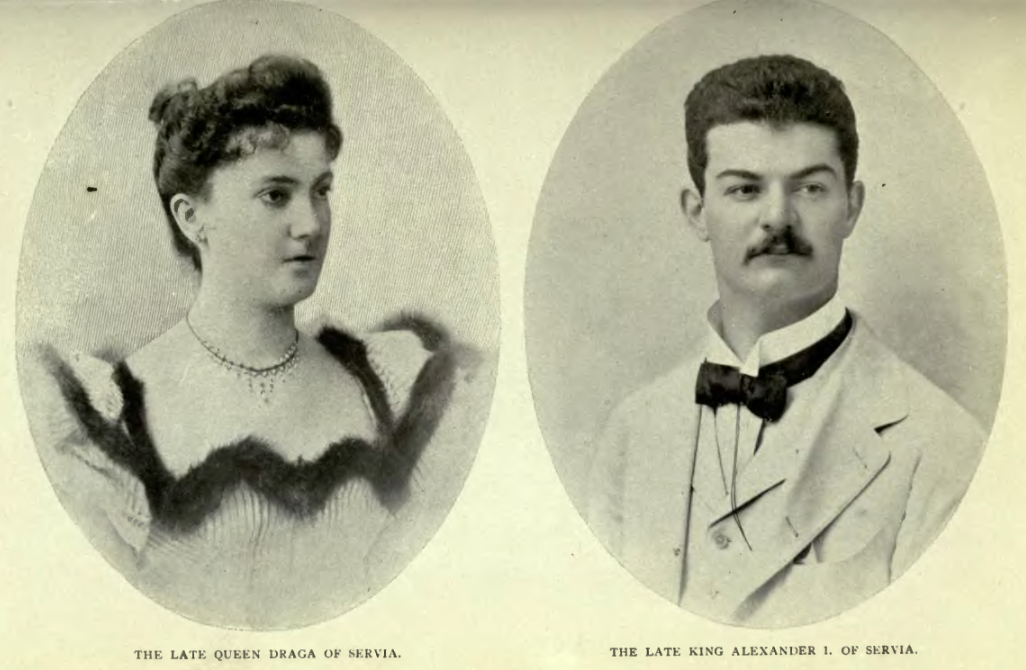 King Alexander Obrenovich of Serbia and Queen Draga